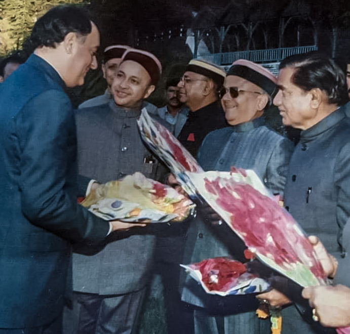 Congress leaders with Rajiv Gandhi during his visit to Shimla